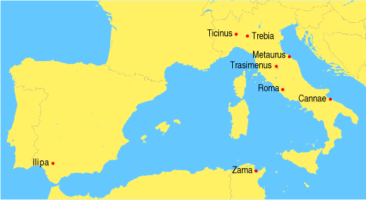 Battles of the second punic war